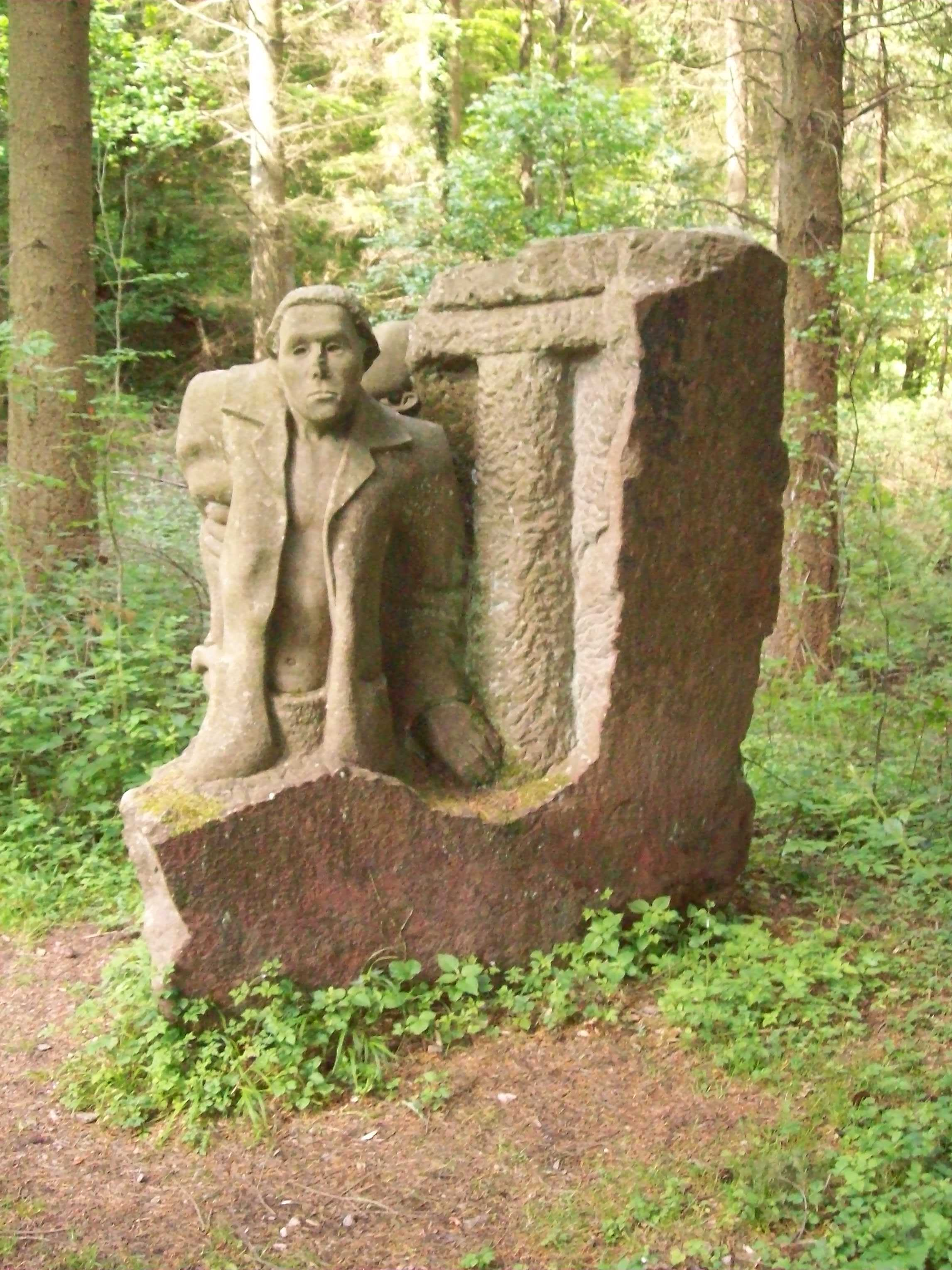 Union Pit monument, Bixslade, Forest of Dean, Gloucestershire